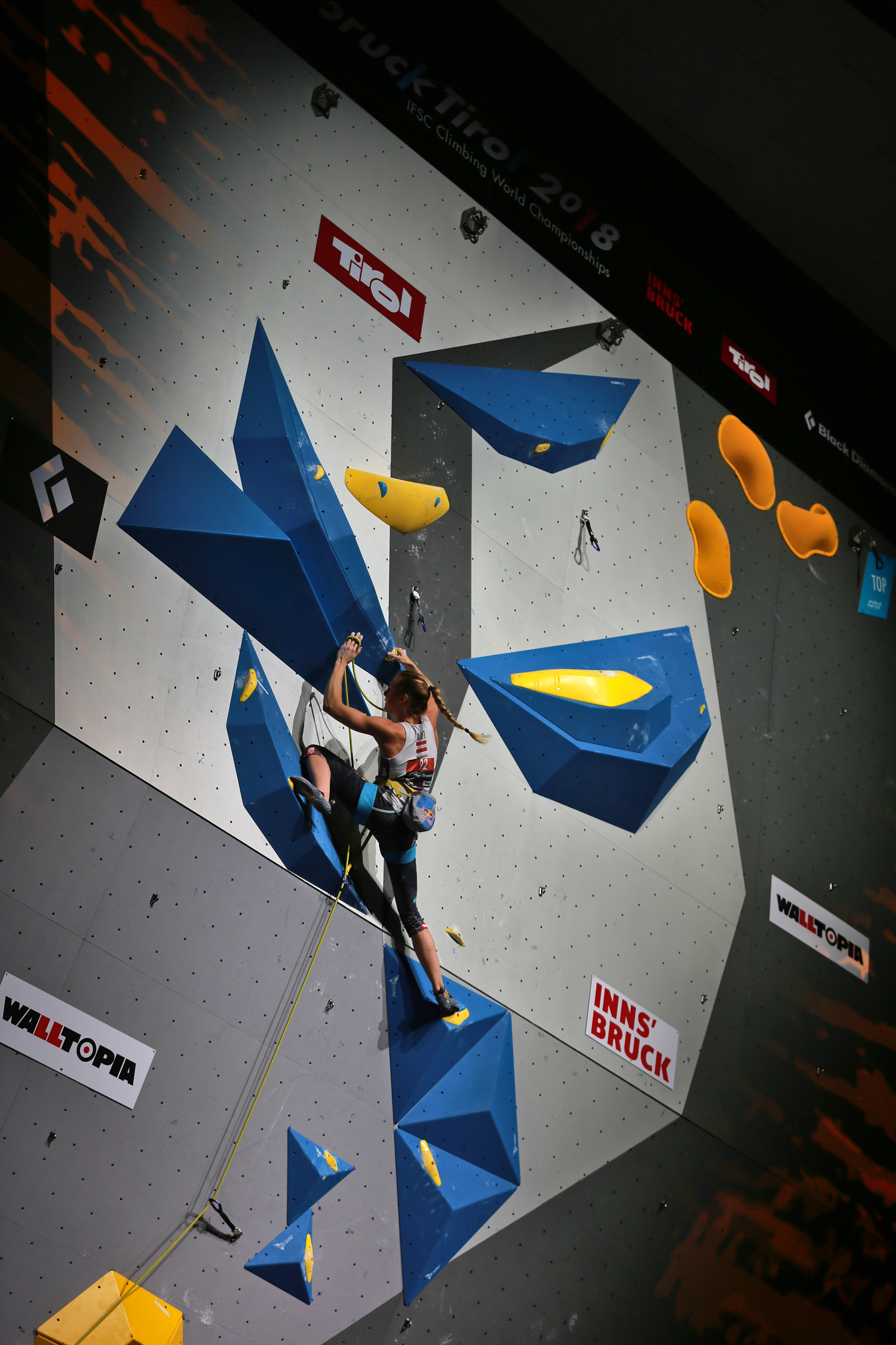 IFSC Climbing World Championships Innsbruck 2018 Final WOMAN lead 92 PILZ Jessica AUT